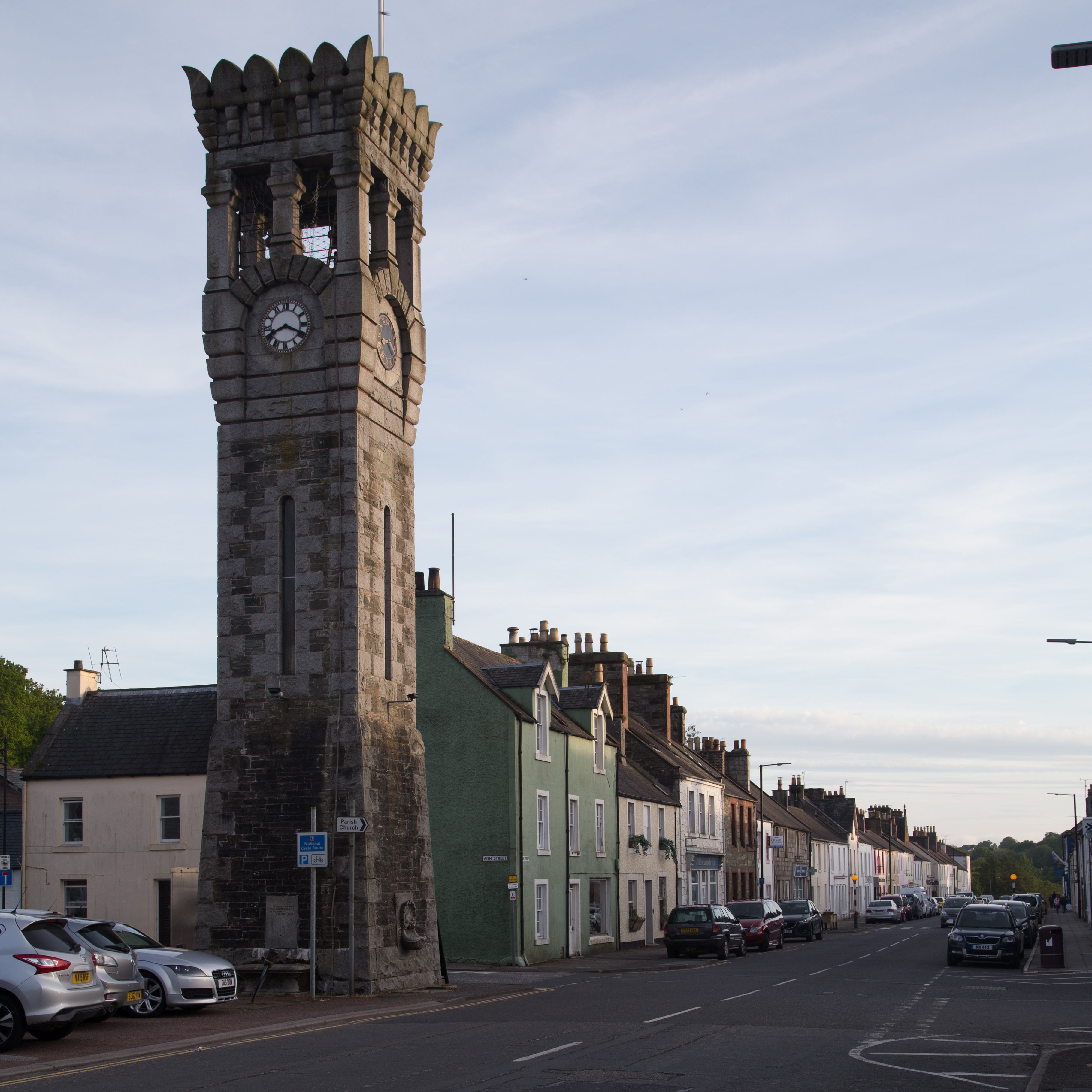 Gatehouse Of Fleet, High Street, Clock Tower Wikidata has entry Q17801300 with data related to this item.